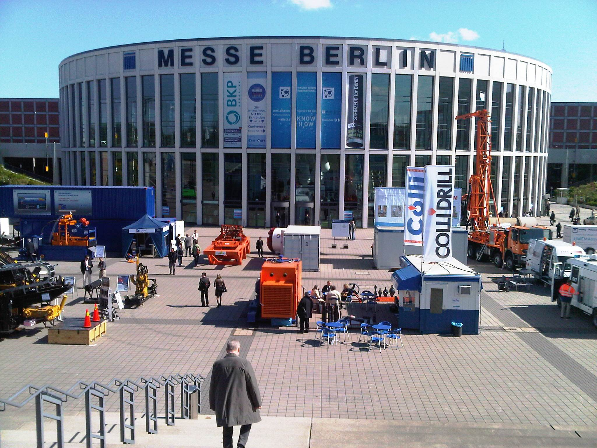 Entrance to the fair "Wasser Berlin International" with a view to the south entrance of Messe Berlin Messe